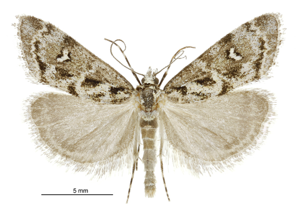 Male specimen of Gadira petraula photographed by Birgit E. Rhode, Landcare Research New Zealand Ltd.